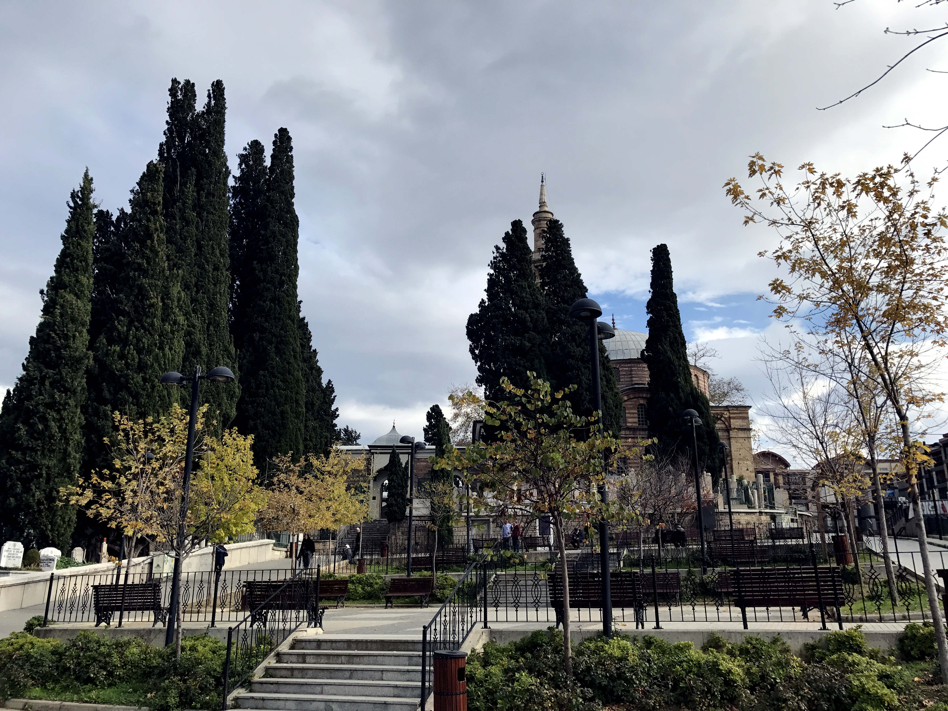 Emir Sultan Mosque in Bursa, Turkey.